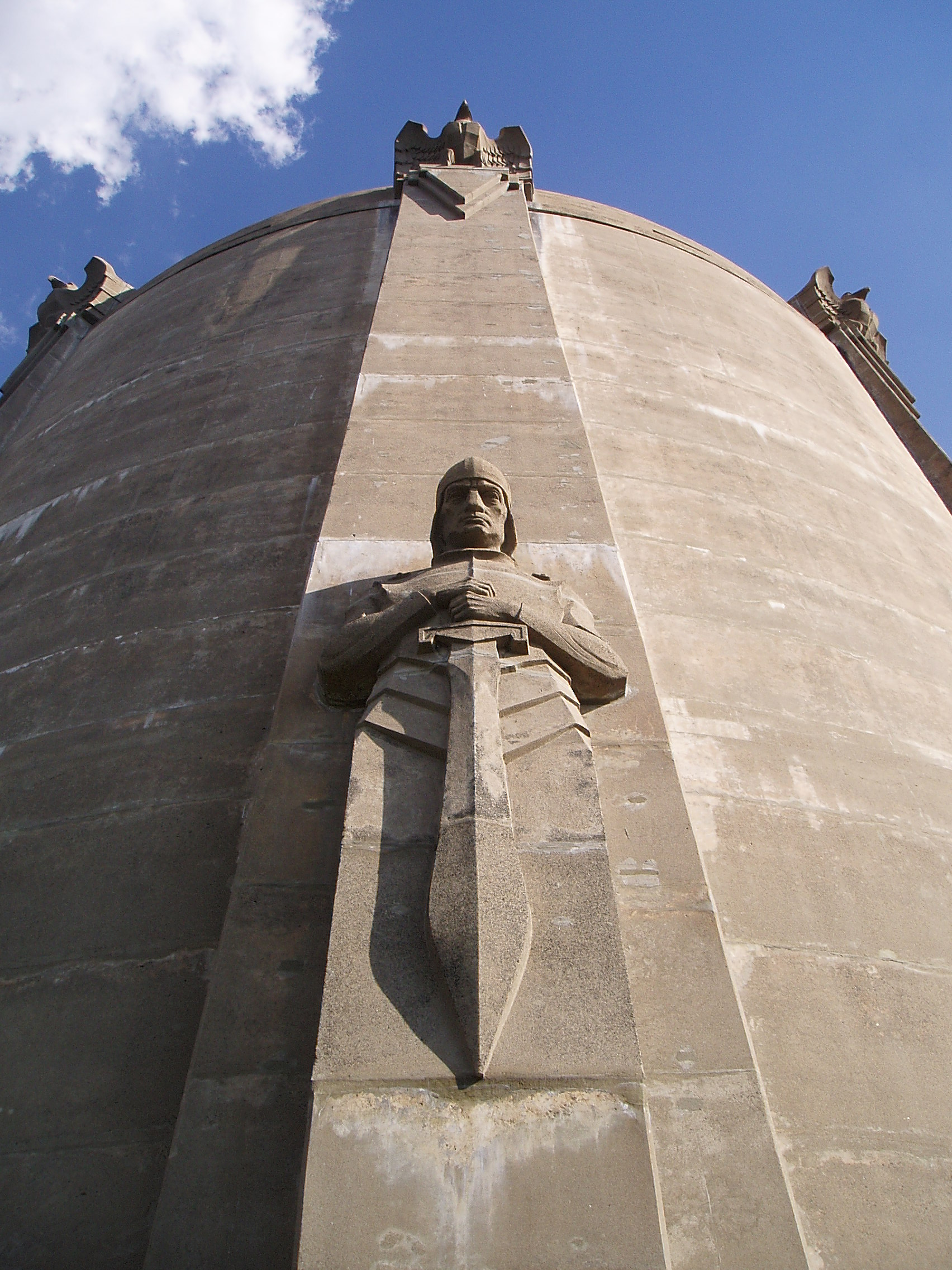 Washburn Water Tower